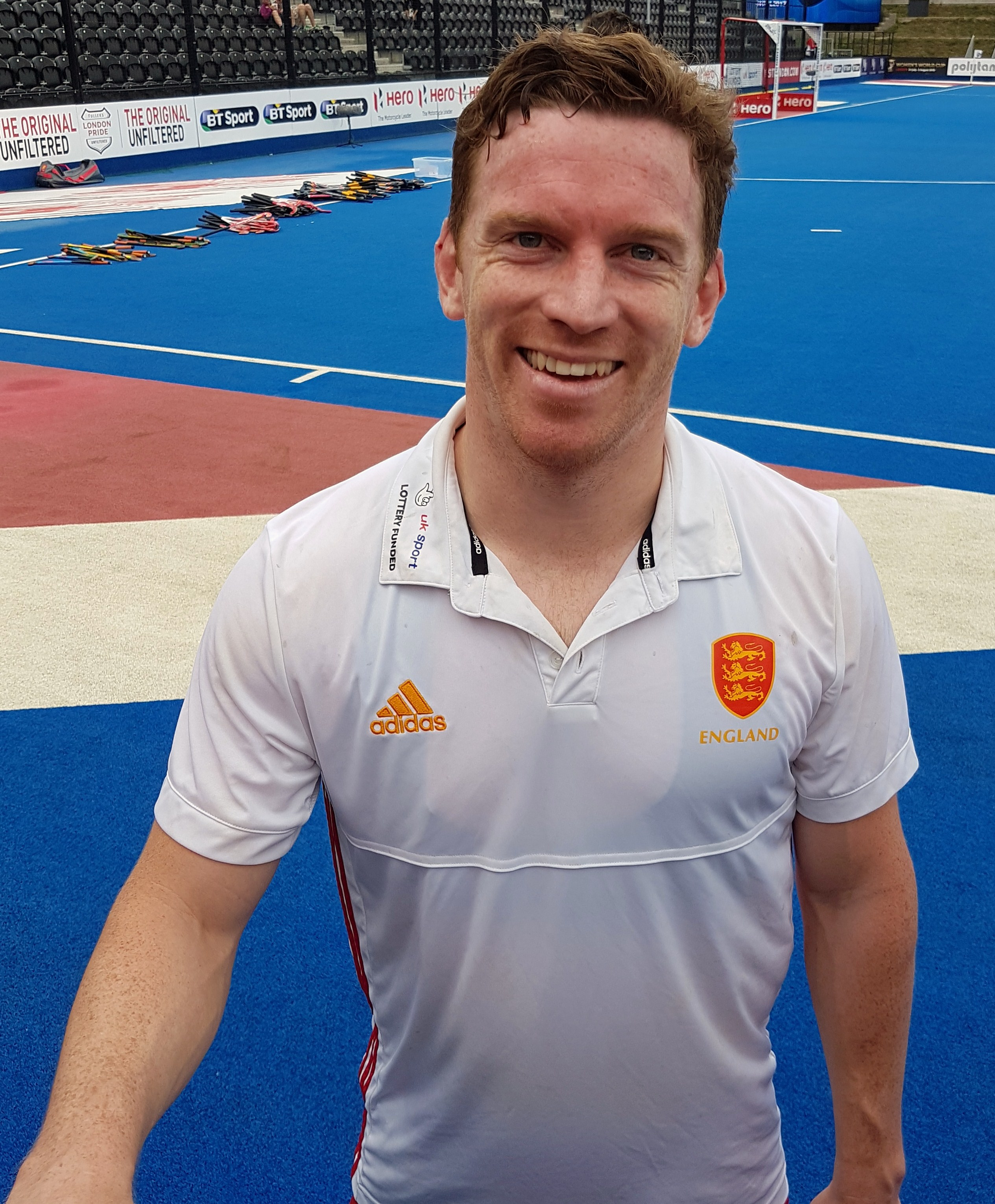 Posed photo with permission